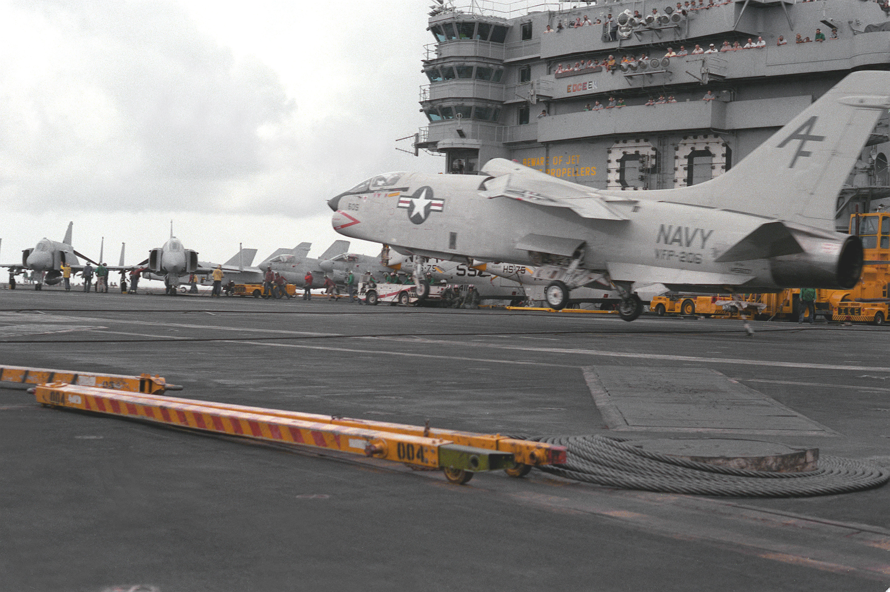 A U.S. Navy Vought RF-8G Crusader aircraft (BuNo 145607) of Photographic Reconnaissance Squadron VFP-206, Reserve Carrier Air Wing 20 (CVWR-20), is about to catch the arresting cable during a landing on board the aircraft carrier USS Dwight D. Eisenhower (CVN-69), in 1985.